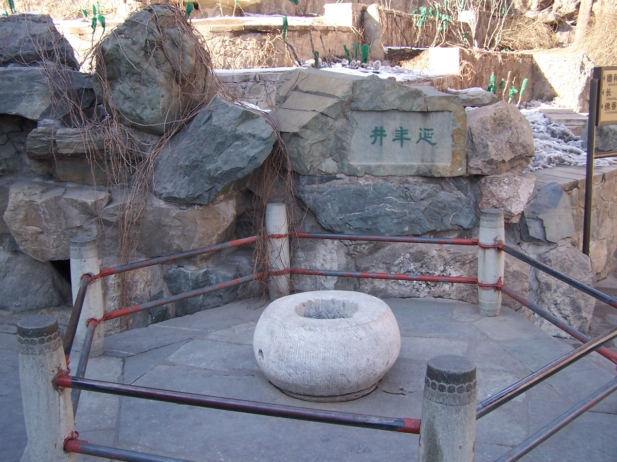 Summer Palace at Beijing, China